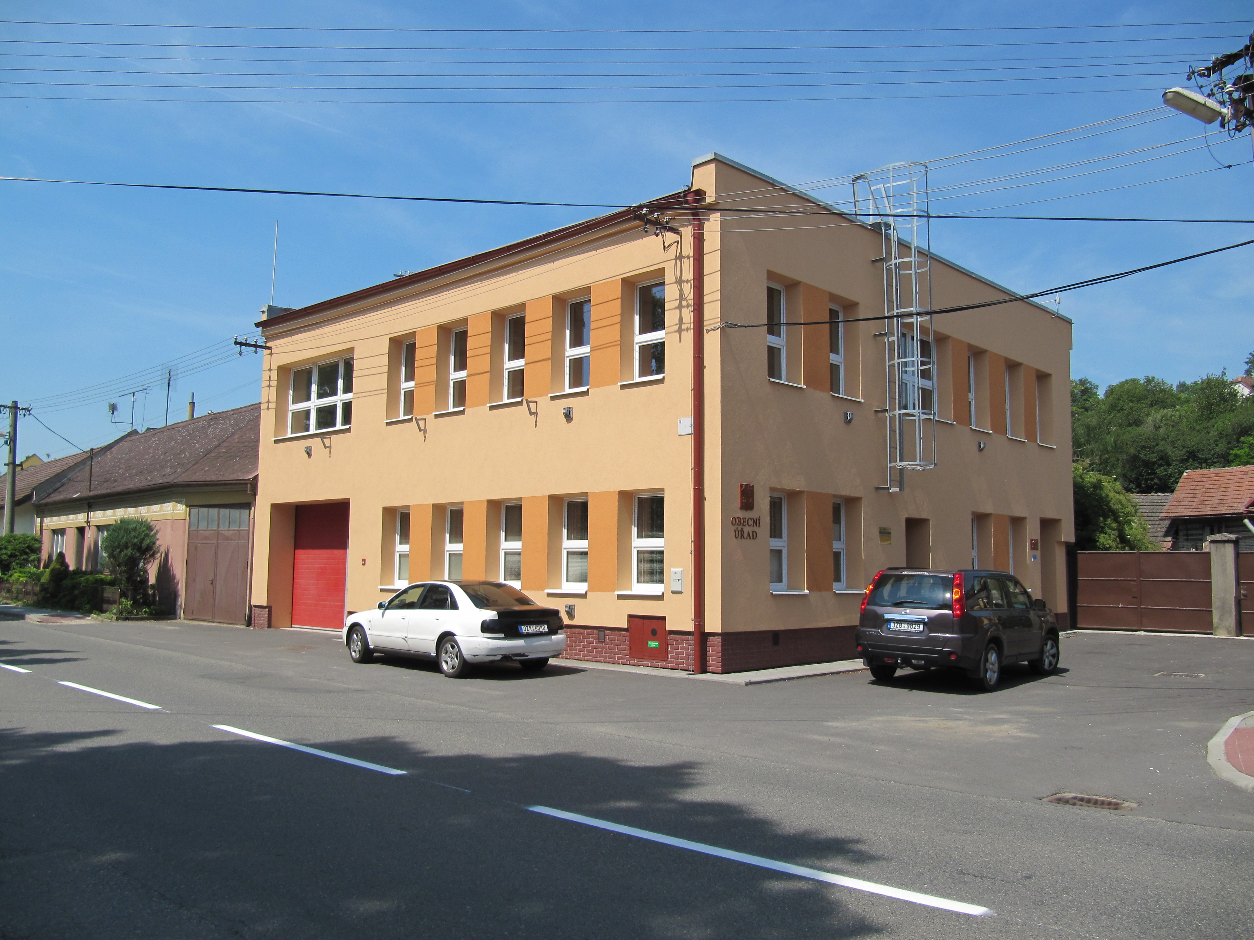 Stříbrnice, Uherské Hradiště District, Czechia.